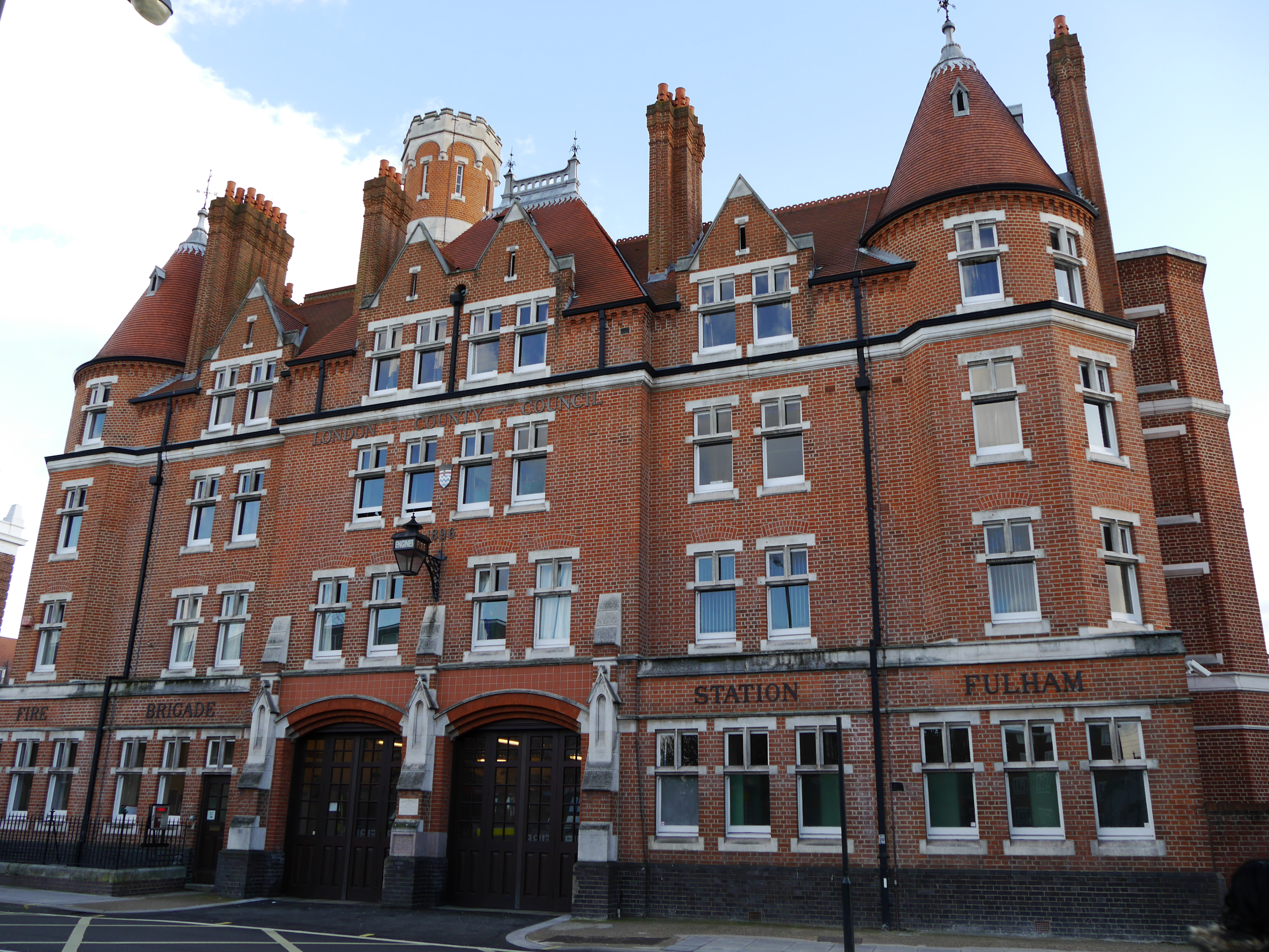 Fulham Fire Station, 11 January 2014